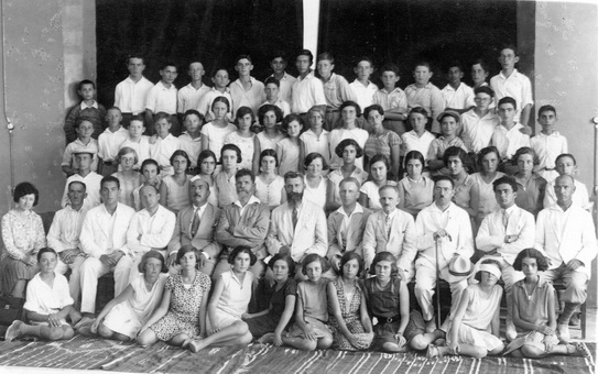 group photo. The teachers are identified from the right: the third - David Aryeh Friedman, the fifth - Baruch Ben Yehuda at the Herzliya High School